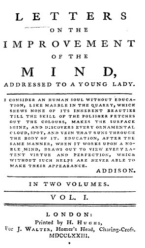 Title page from the first edition of the first volume of Hester Chapone's Letters on the Improvement of the Mind